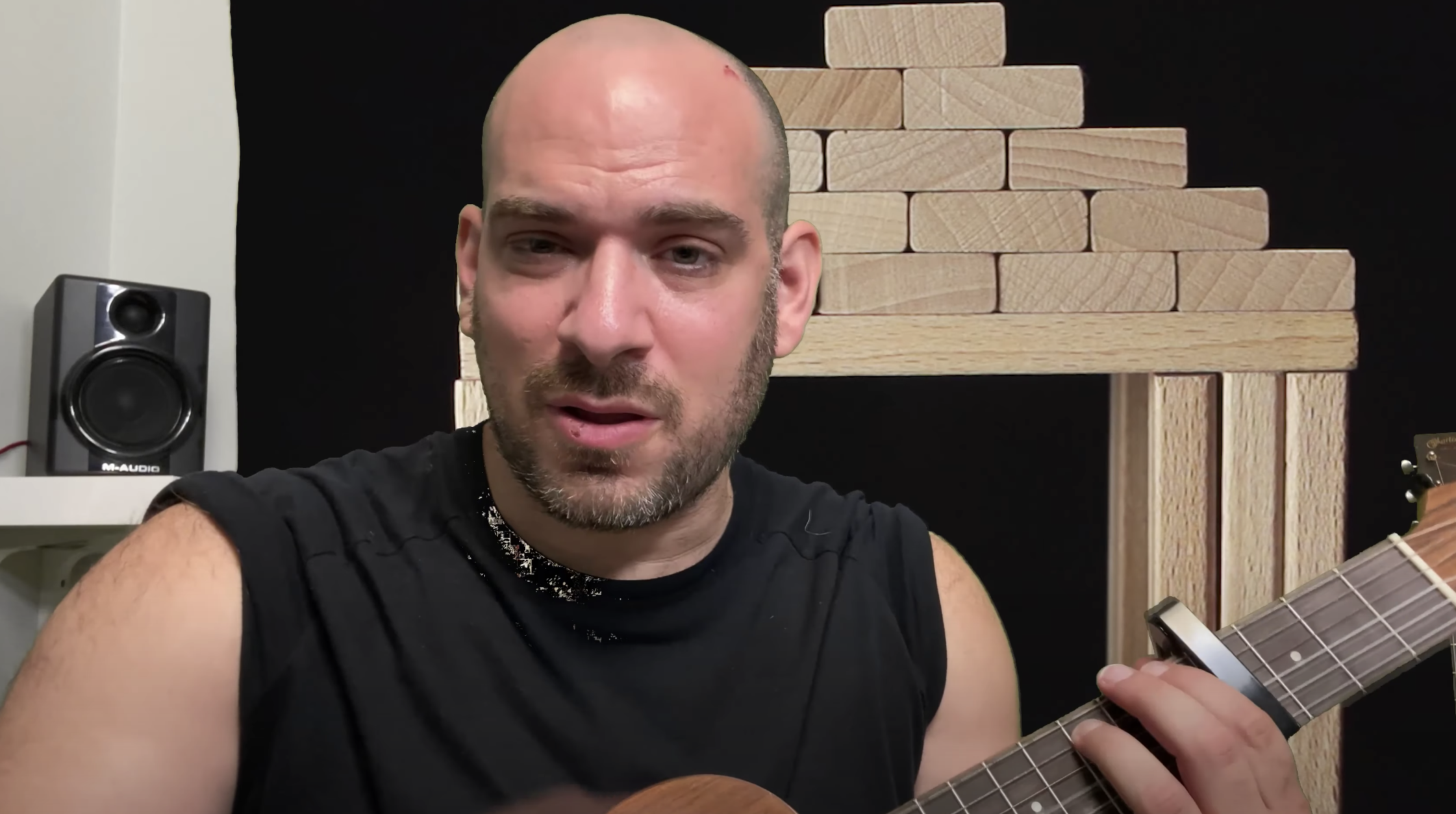 Jonathan Mann performing on his own Youtube Channel